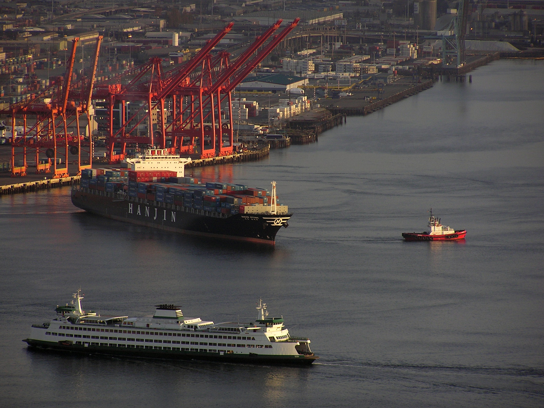 Container ship Hanjin Ottawa manouevres away from the terminal at Harbor Island as the Bainbridge Island ferry enters the Port of Seattle. Photograph taken from the viewing deck of the Space Needle IMO Number: 9200718 MMSI Number: 211378360 Callsign: DANM Length: 279 m Beam: 32 m